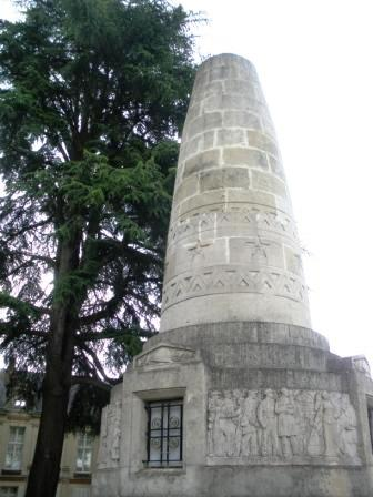 The artillery shell shaped monument aux mort(war memorial) at Noyon in the Oise region of France